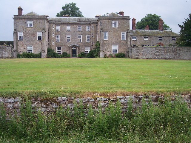 Morville Hall. A grade One listed building, the house is of Elizabethan origin having been converted almost entirely in the 18th C and set in attractive gardens with its two wings facing the Church